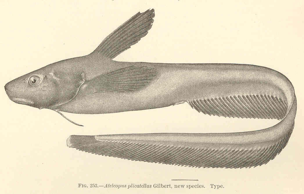 Ateleopus plicatellus Gilbert, new species. Type Subject: Ateleopodidae, Ateleopus Tag: Fish